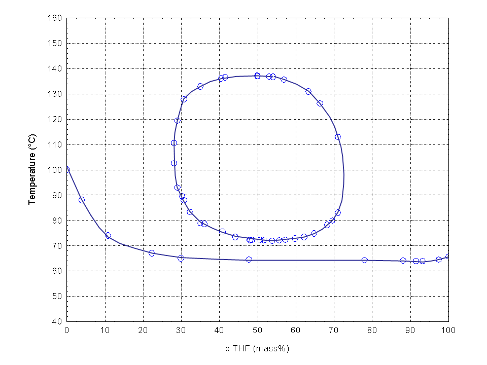 Binary phase diagram of tetrahydrofuran with water (constructed from experimental data reported in Matous, J.; Novak, J.P.; Sobr, J.; Pick, J.: Coll. Czech. Chem. Commun. 37 (1972) 2653-2663 and Hayduk, W.; Laurie, H.; Smith, O.H.: J. Chem. Eng. Data 18 (1973) 373-376)